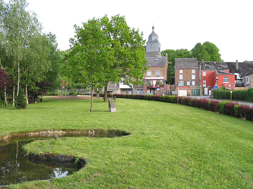 Nassogne (Belgium), the surroundings of Saint-Monon's Collegiate church.